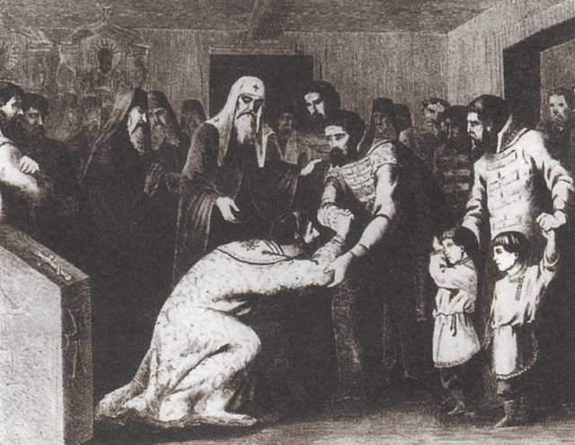 Viktor Muizhel. Reconciliation of Vasily II Tyomniy with Shemyaka. Title: [1]